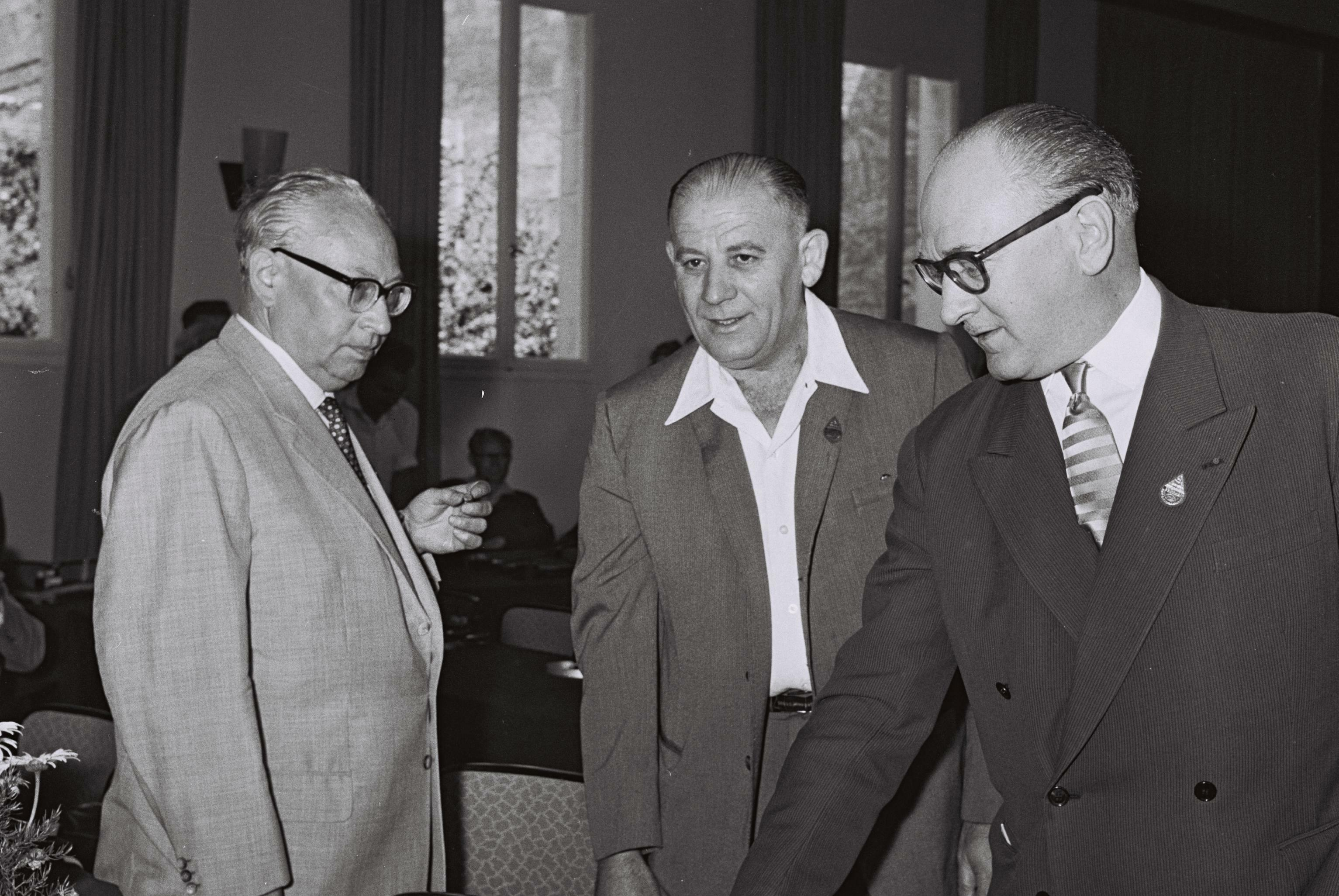 Erich Ollenhauer,Yoseph Almogi, and Guy Mollet (LtR) at the Socialist International in Haifa 1960